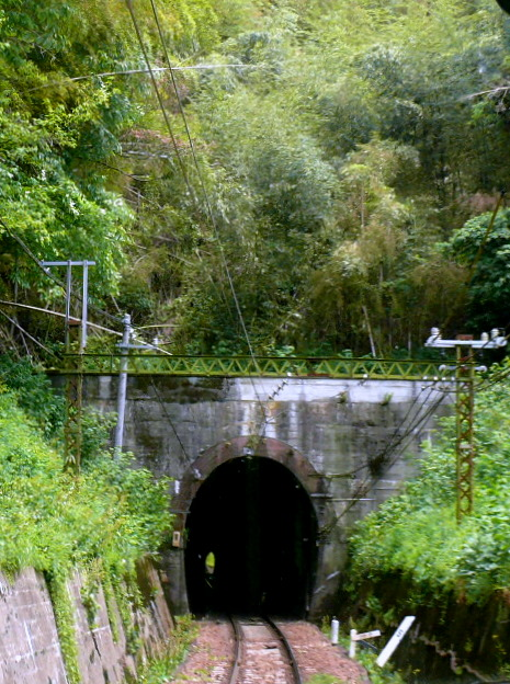 Ohmi Railway Main Line Sawa Mt. tunnel.